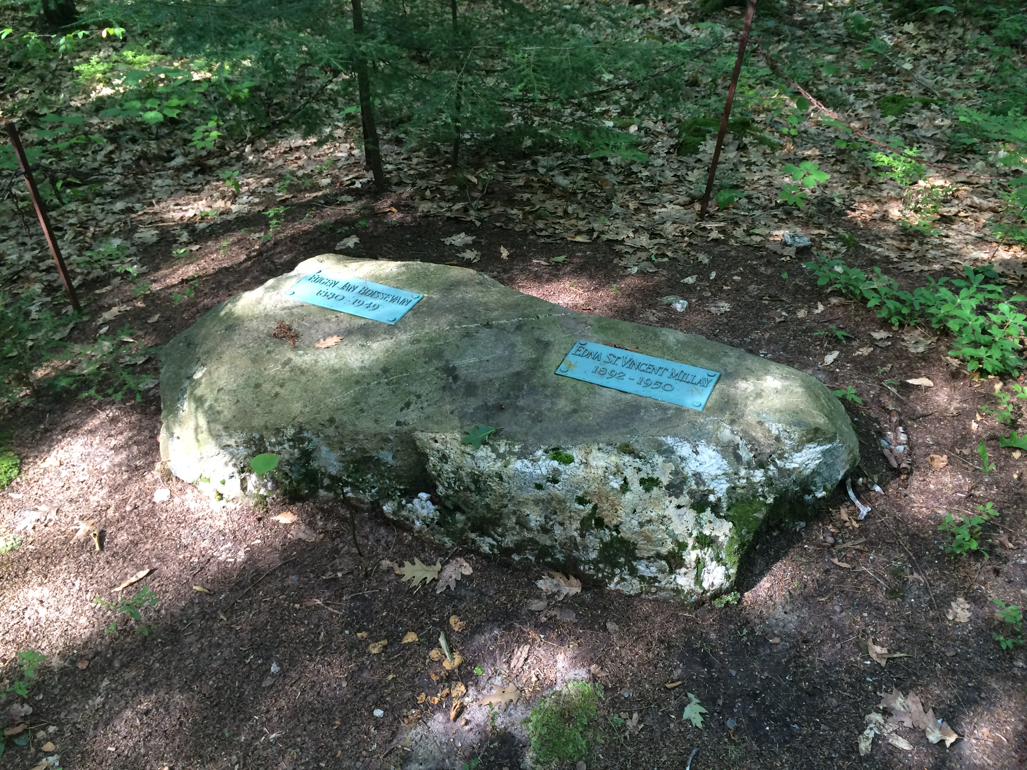 Gravestone for Edna St. Vincent Millay and Eugen Jan Boissevain. The grave site is at the end of Poet's Walk on the property of Steepletop, Millay's home in Austerlitz, NY. Also, buried in this small family plot are her mother, Cora Lounella Buzelle Millay, sister, Norma Ellis and brother-in-law Charlie Ellis. The walk is accessed off East Hill Road, a short distance beyond Millay's home and across the road from the Millay Colony for the Arts..